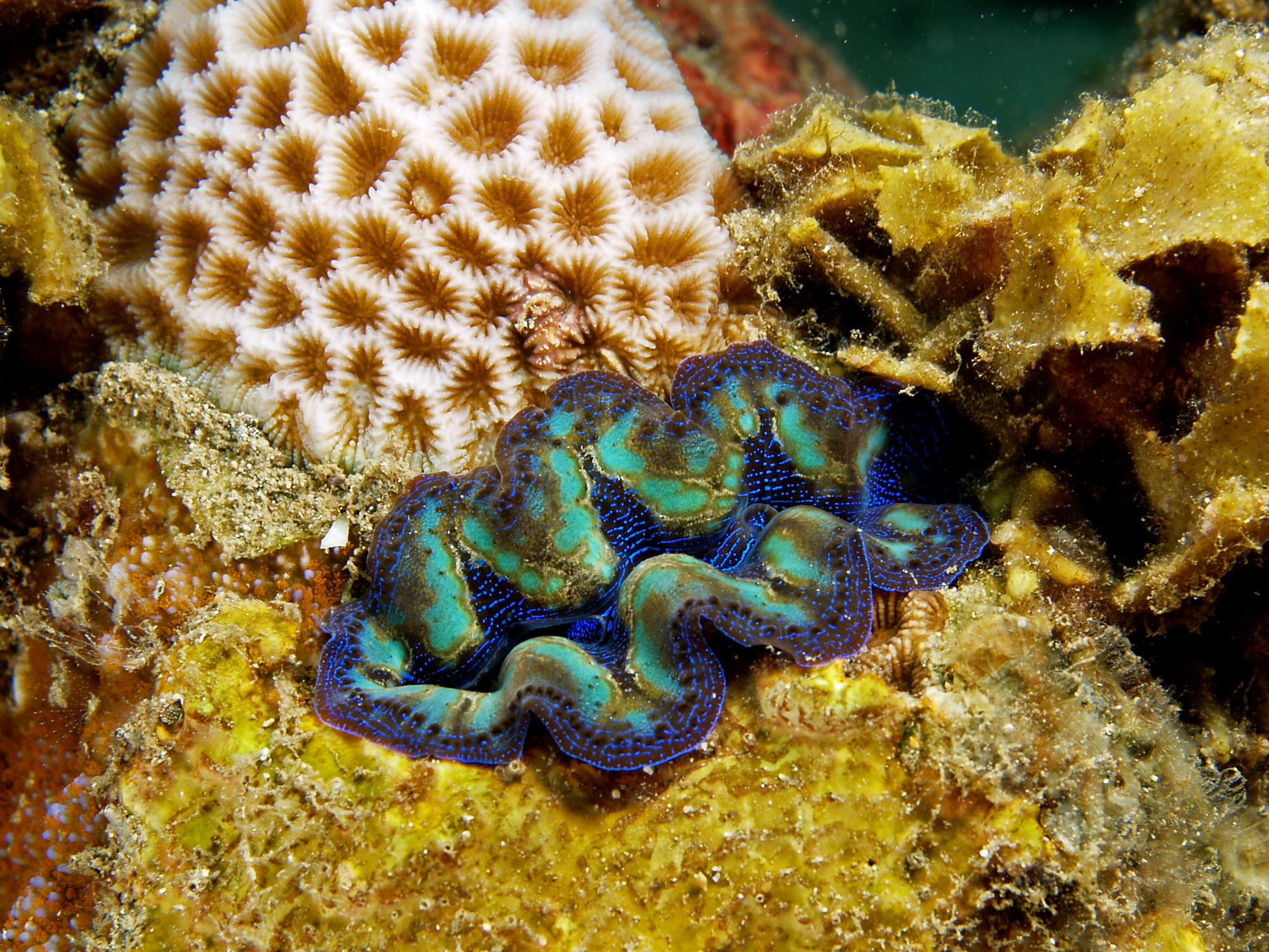 Tridacna crocea giant clam. Although in the giant clam family this small clam rarely gets more than 10 centimeters long. This species is normally found in shallow intertidal reef flats where its symbiotic zooxanthellae can get the most sunlight for photosynthesis.